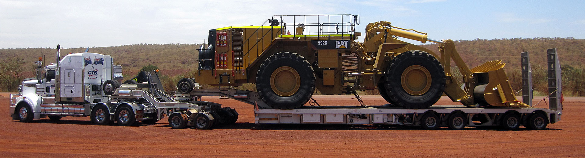 Low loader dolly